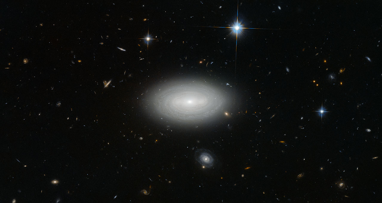 Only three local stars appear in this image, quartered by right-angled diffraction spikes. Everything besides them is a galaxy; floating like a swarm of microbes in a drop of water, and brought into view here not by a microscope, but by the Advanced Camera for Surveys on the Hubble Space Telescope. In the foreground, the spiral arms of MCG+01-02-015 seem to wrap around one another, cocooning the galaxy. The scene suggests an abundance of galactic companionship for MCG+01-02-015, but this is a cruel trick of perspective. Instead, MCG+01-02-015’s unsentimental naming befits its position within the cosmos: It is a void galaxy, the loneliest of galaxies. The vast majority of galaxies are strung out along galaxy filaments — thread-like formations that make up the large-scale structure of the Universe — drawn together by the influence of gravity into sinuous threads weaving through space. Between these filaments stretch shallow but immense voids; the Universe’s wastelands, where, outside of the extremely rare presence of a galaxy, there is very little matter — about one atom per cubic metre. One such desolate stretch of space is what MCG+01-02-015 reluctantly calls home. The galaxy is so isolated that if our galaxy, the Milky Way, were to be situated in the same way, we would not have known of the existence of other galaxies until the 1960s.